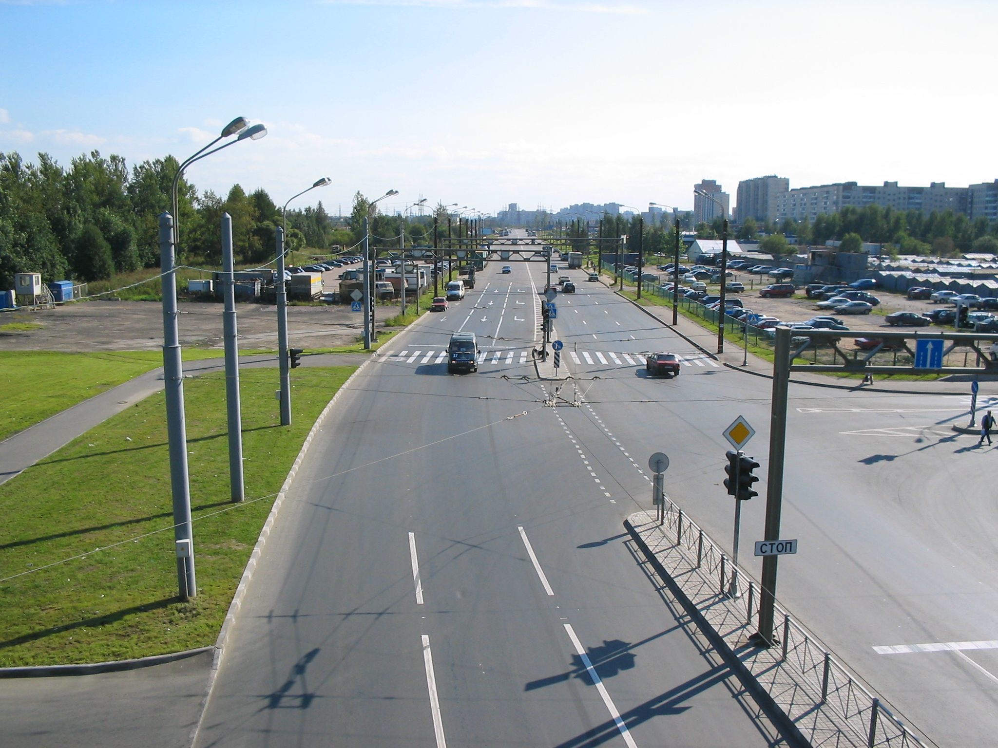 Kommuny Street in St.Petersburg